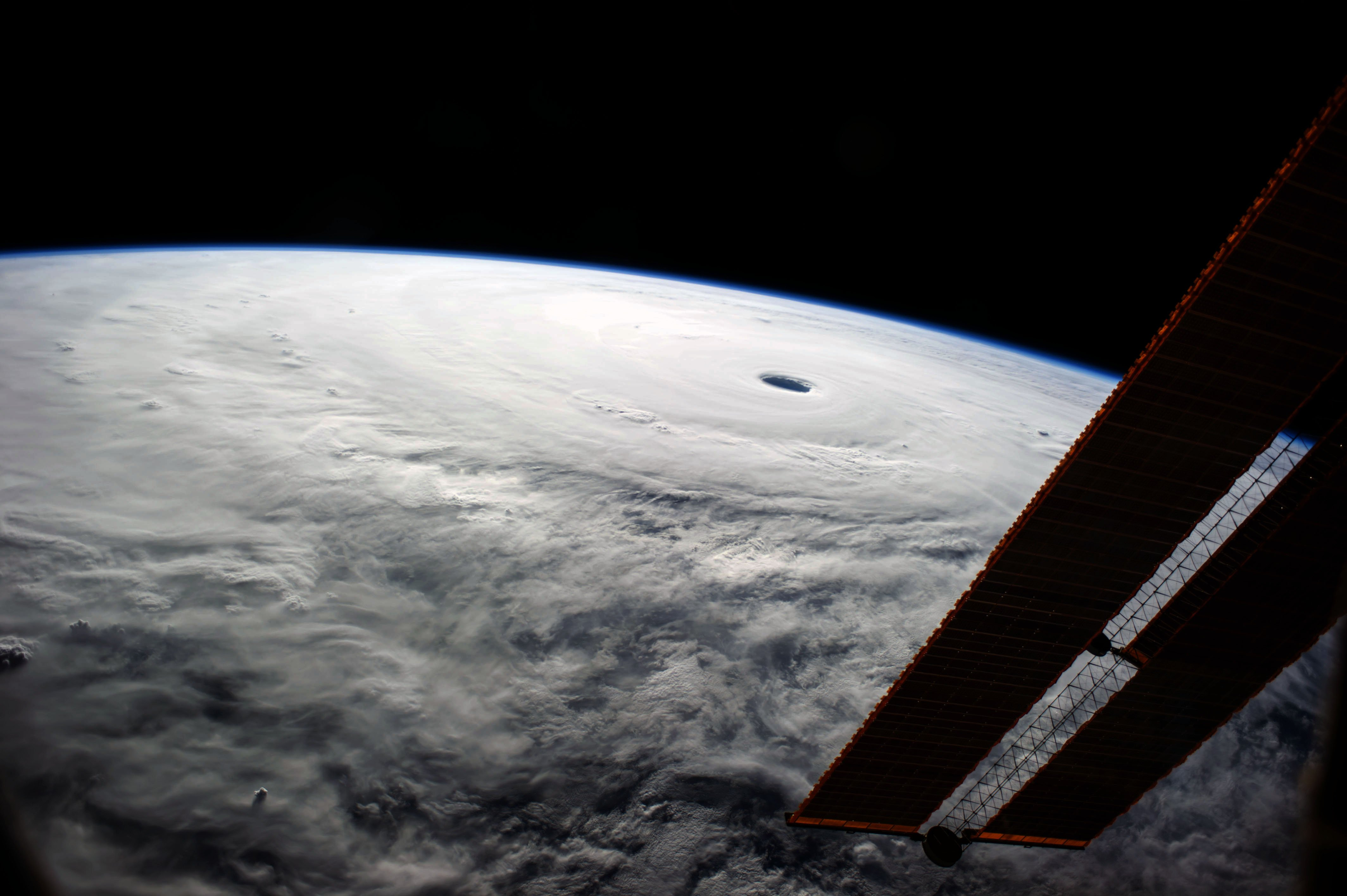 ISS-RapidScat's space station berth gave the instrument a close-up view of Typhoon Vongfong, pictured here in an Oct. 9 photo by astronaut Reid Wiseman.